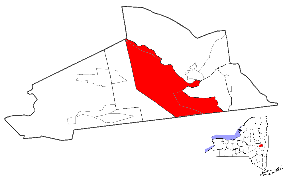 Map of Schenectady County highlighting Rotterdam